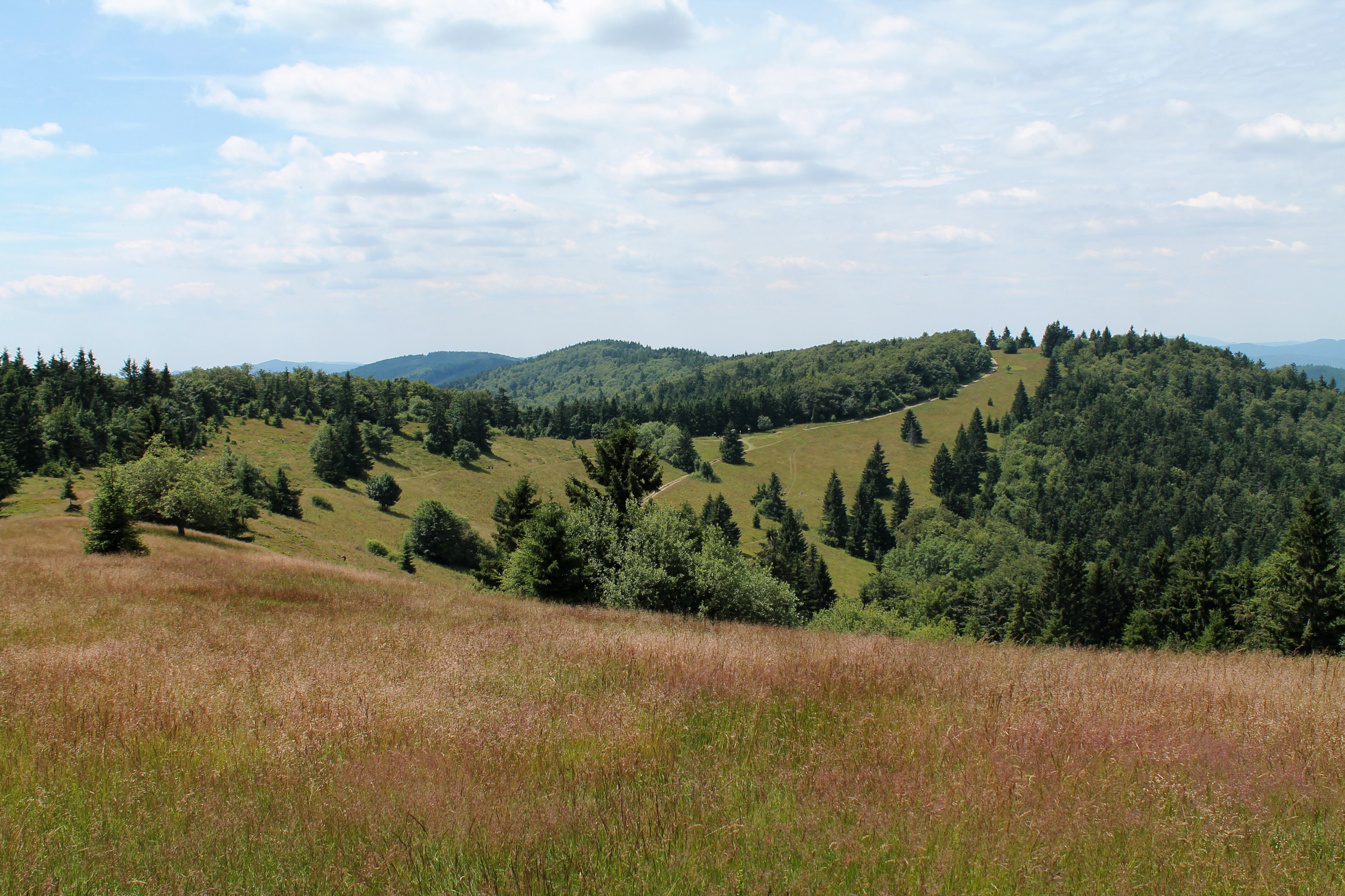 View from Veľký Javorník towards to Gežov saddle and Javorníky ridge, Makov, Čadca District, Slovakia